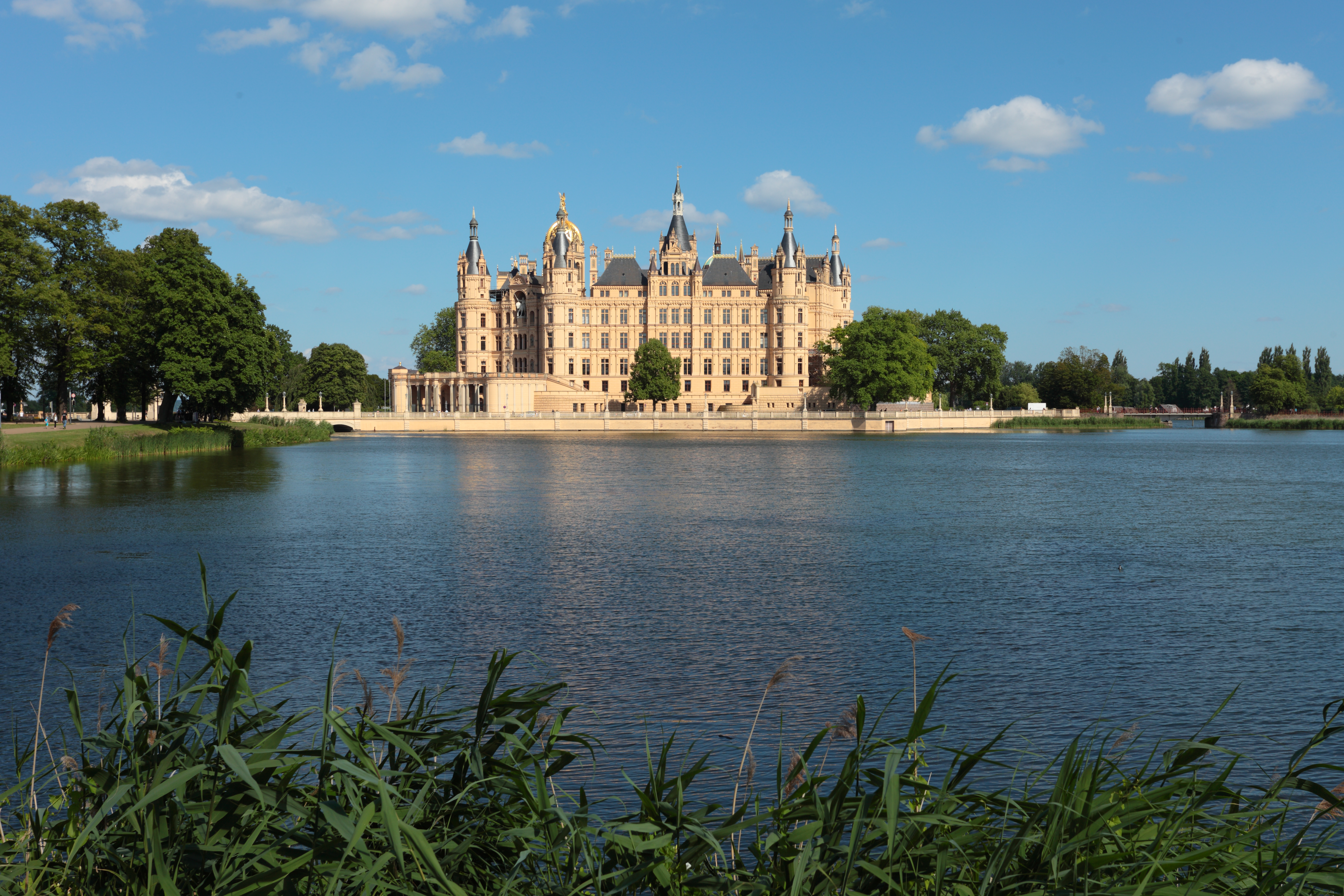 Schwerin Castle, seen from: Heinrich-Mann-Straße 18, 19053 Schwerin 53.625016, 11.412599